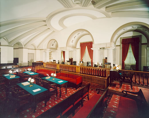 The Old Supreme Court Chamber, the meeting place of the United States Supreme Court between 1810 and 1860, located in the basement of the United States Capitol. It housed the United States Senate from 1800 until 1806. In 1860, the Supreme Court moved into the Old Senate Chamber, still in the Capitol, once the Senate moved into its current chamber.